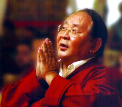 Sogyal Rinpoche